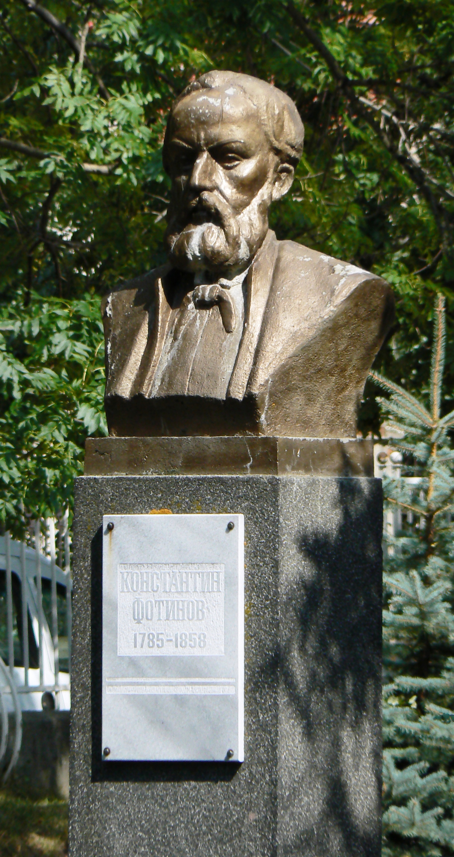 Bust-monument of Konstantin Fotinov in the schoolyard of school "Konstantin Fotinov" in Samkov, Bulgaria